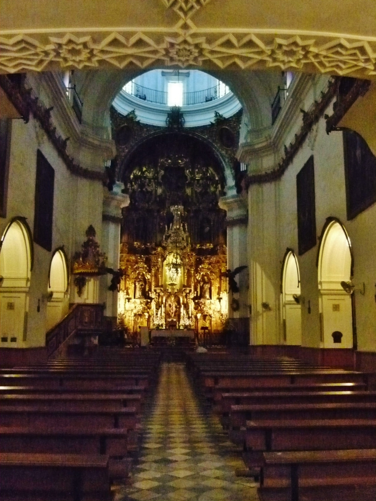 Church of San Francisco, Cádiz